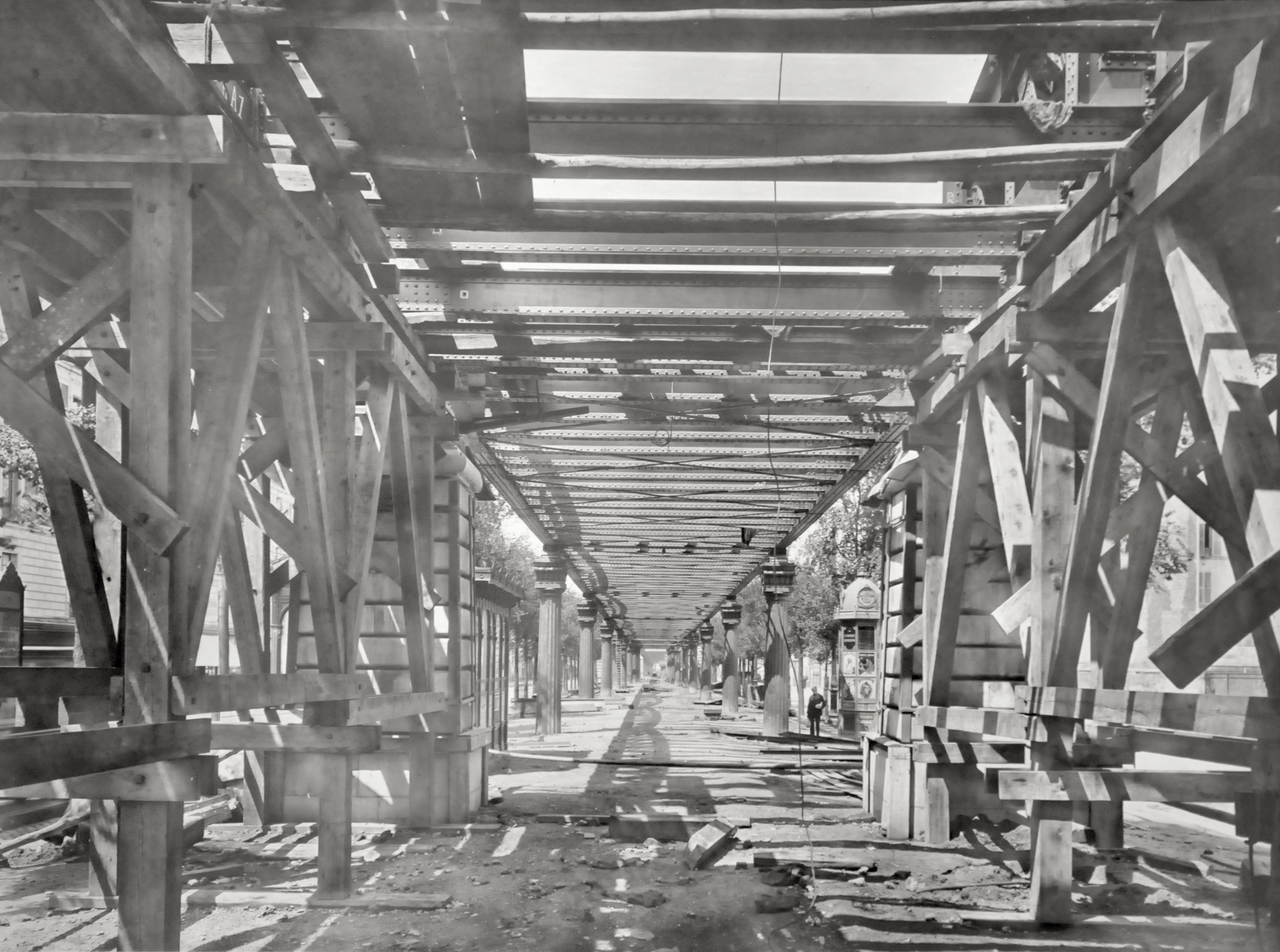 Construction of the elevated railway in Paris (1905)author unknown (Momart NYC°